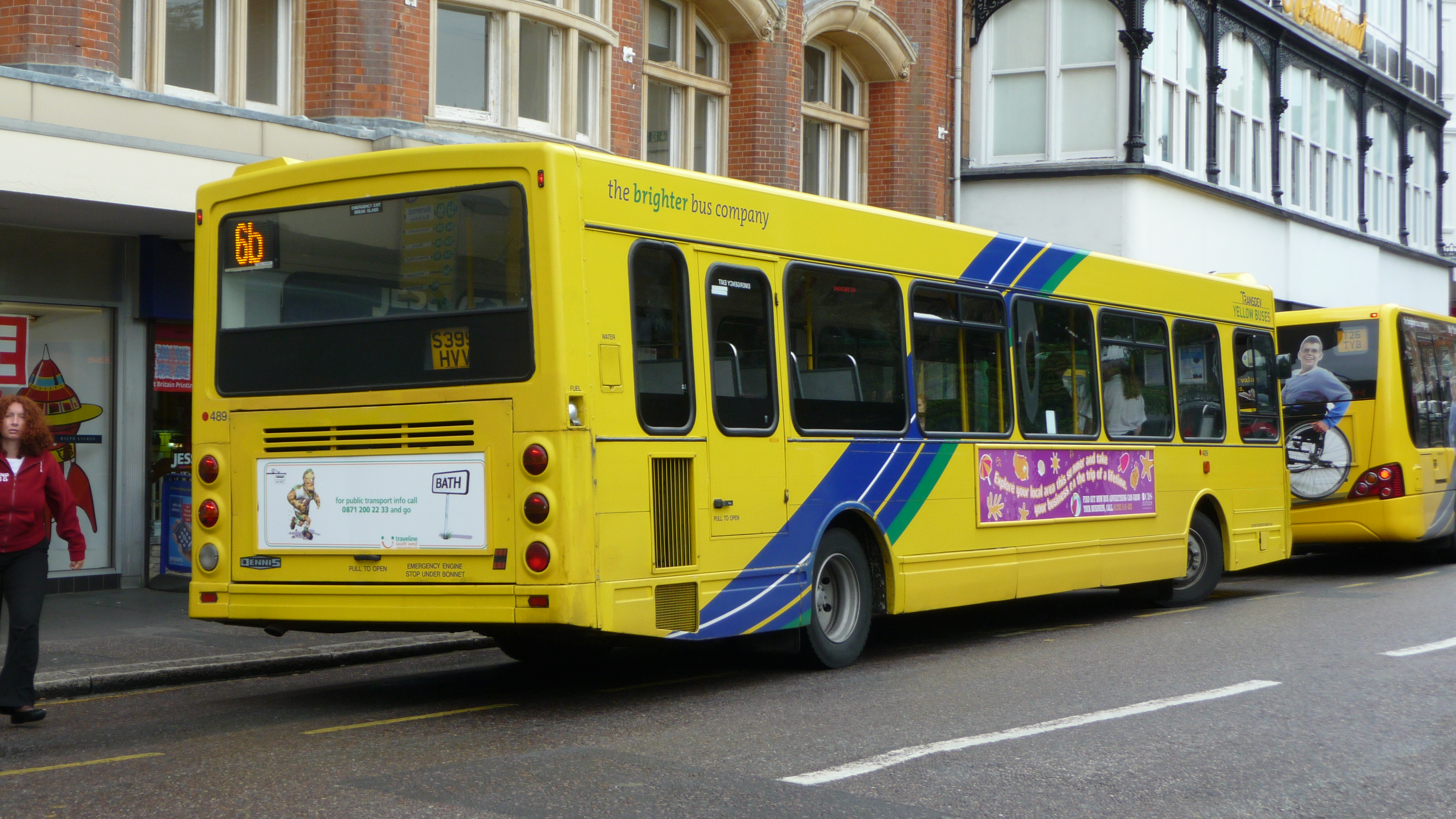 The rear of Transdev Yellow Buses 489 (S399 HVV), a Dennis Dart SLF/East Lancs Spryte, in Gervis Place, Bournemouth, Dorset, on route 6b.